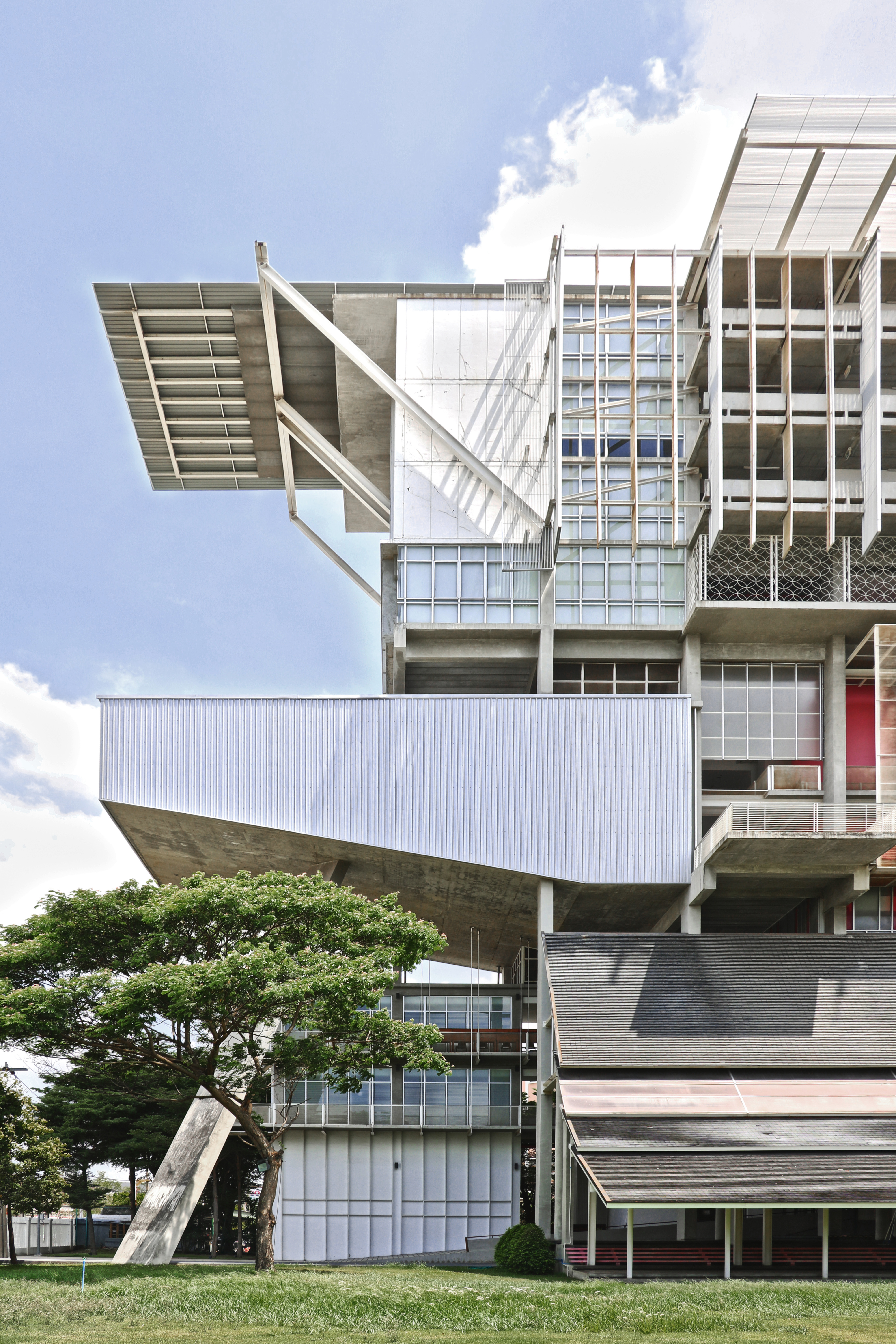 Chula Pat 13 Building, Chulalongkorn University.